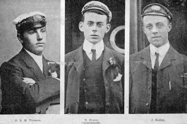 Creator unknown. Black and white image of some of the lost Loch Vennachar's crew (from left: D.S.M. Thompson, T. Pearce (apprentice) and J. Hadley). Item held by State Library of Victoria as part of the Malcolm Brodie shipping collection. Image number: H99.220/648. Taken prior to September 1905.